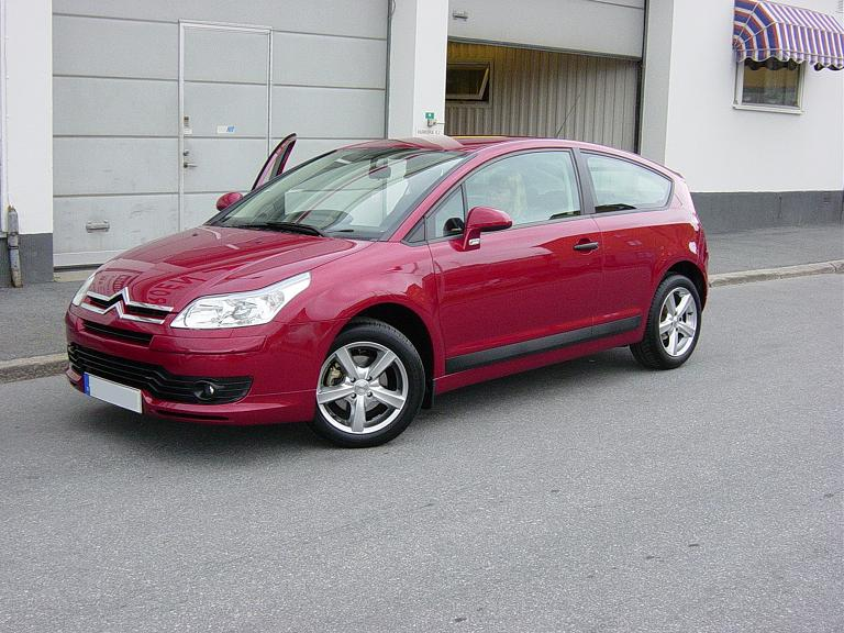 A Swedish 2005 Citroën C4 VTR coupé